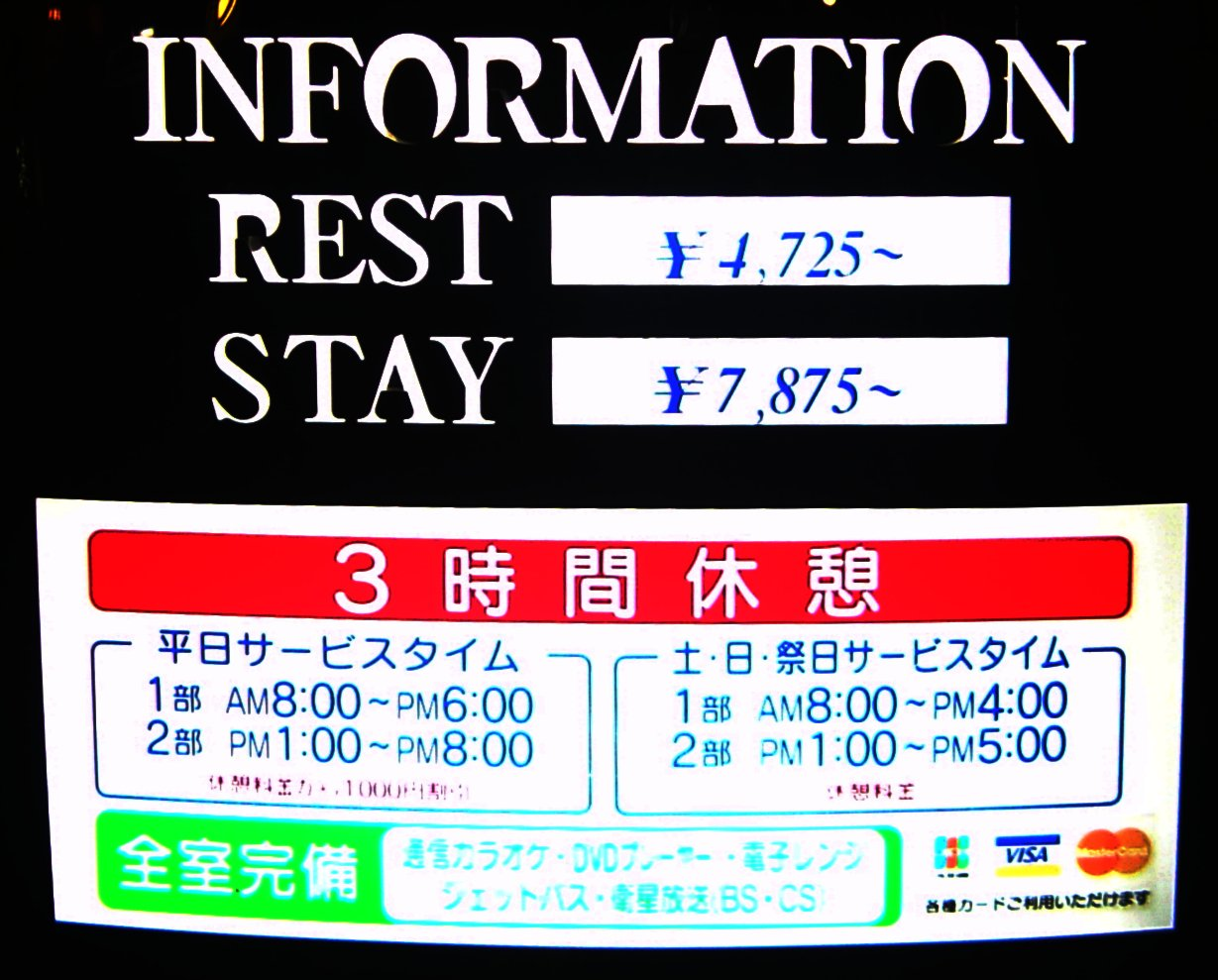 A sign for a love hotel in Japan (color readjustment)